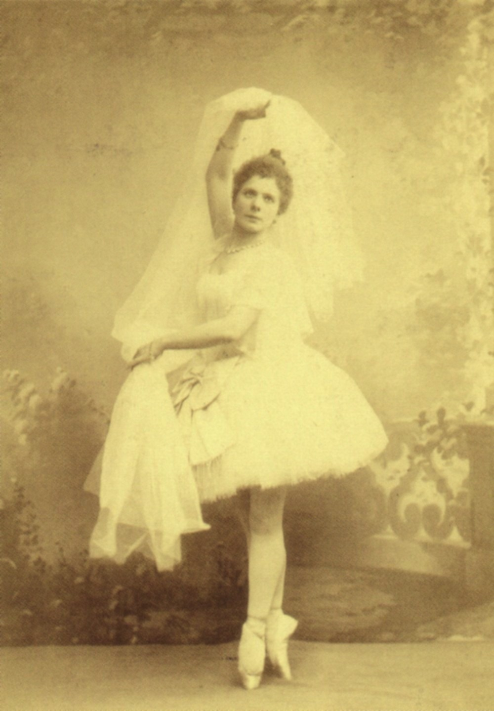 Photograph of Pierina Legnani (1863-1923), Prima ballerina assoluta of the St. Petersburg Imperial Theatres. She is costumed for the "Danse du voile" called "Une fantaisie" from the first act of the original production of the choreographer Marius Petipa (1818-1910) & the composer Alexander Glazunov's (1865-1936) 1898 ballet "Raymonda".